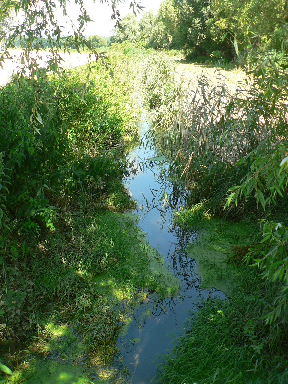 A Váli-víz a Pancho Arénánál (Óbarok felé nézve)